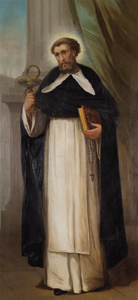 Painting of Blessed Giles of Santarém, in the Major Seminary of Viseu, Portugal